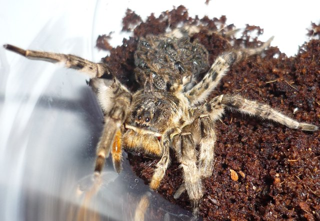 Spider lycosa singoriensis. Its children on its body.